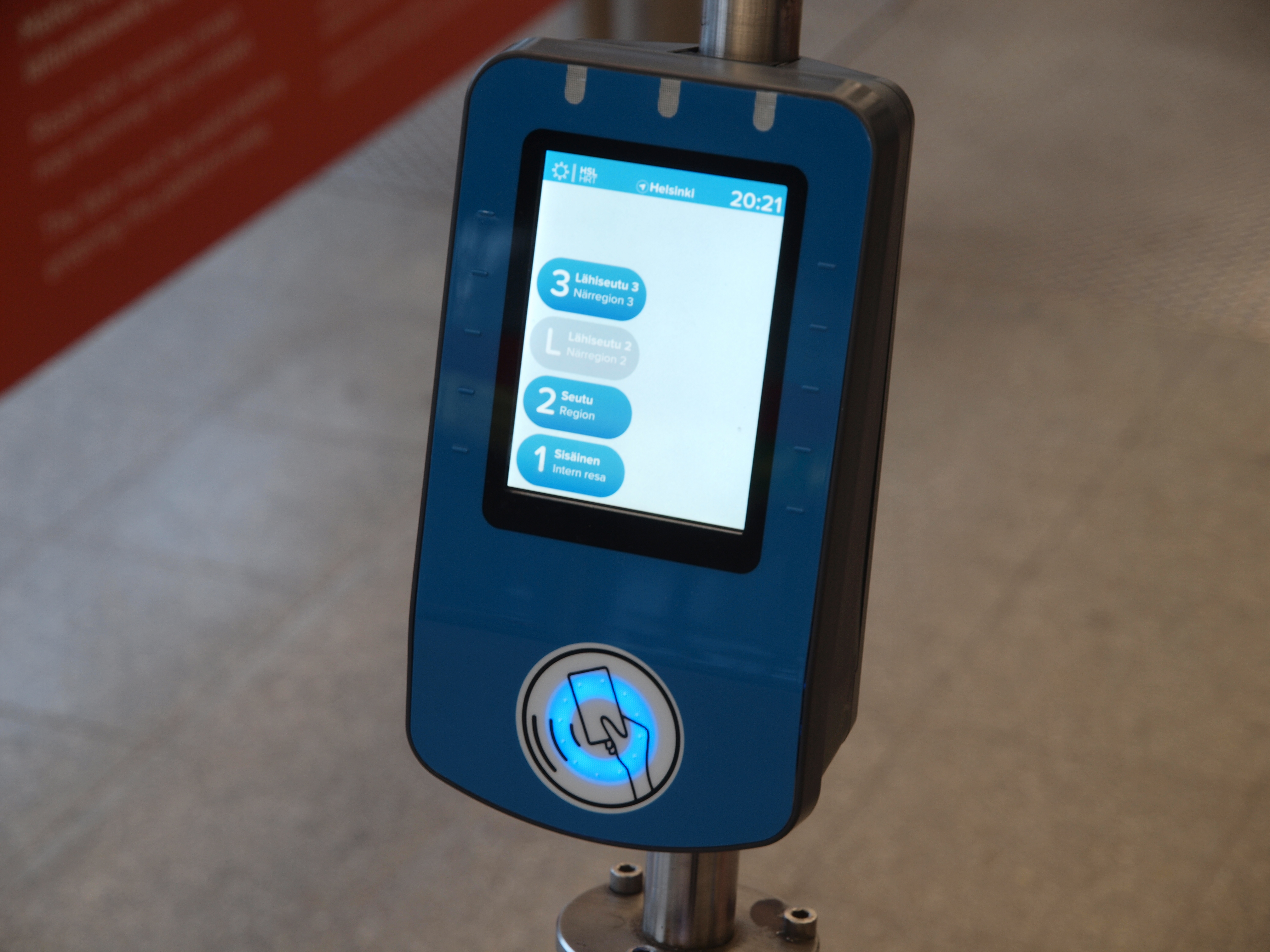 A new ticket reader machine for HSL public transport in the Helsinki metropolitan area, photographed at the Ruoholahti metro station.